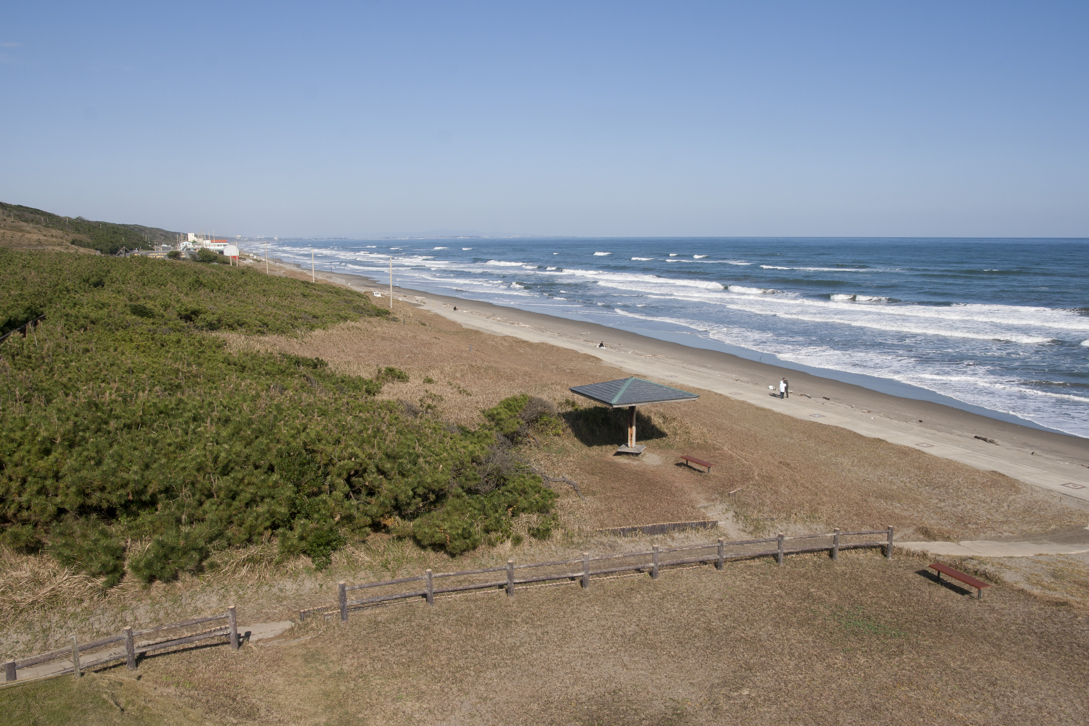 Otake Coast, Hokota City, Ibaraki Prefecture, Japan.